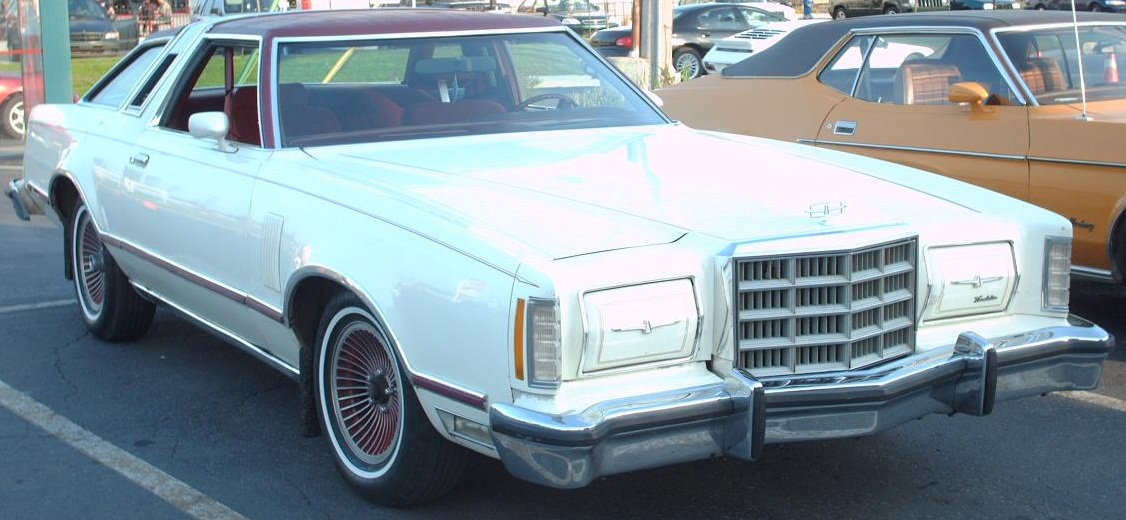 1977 Ford Thunderbird photographed in Montreal, Quebec, Canada at Gibeau Orange Julep.